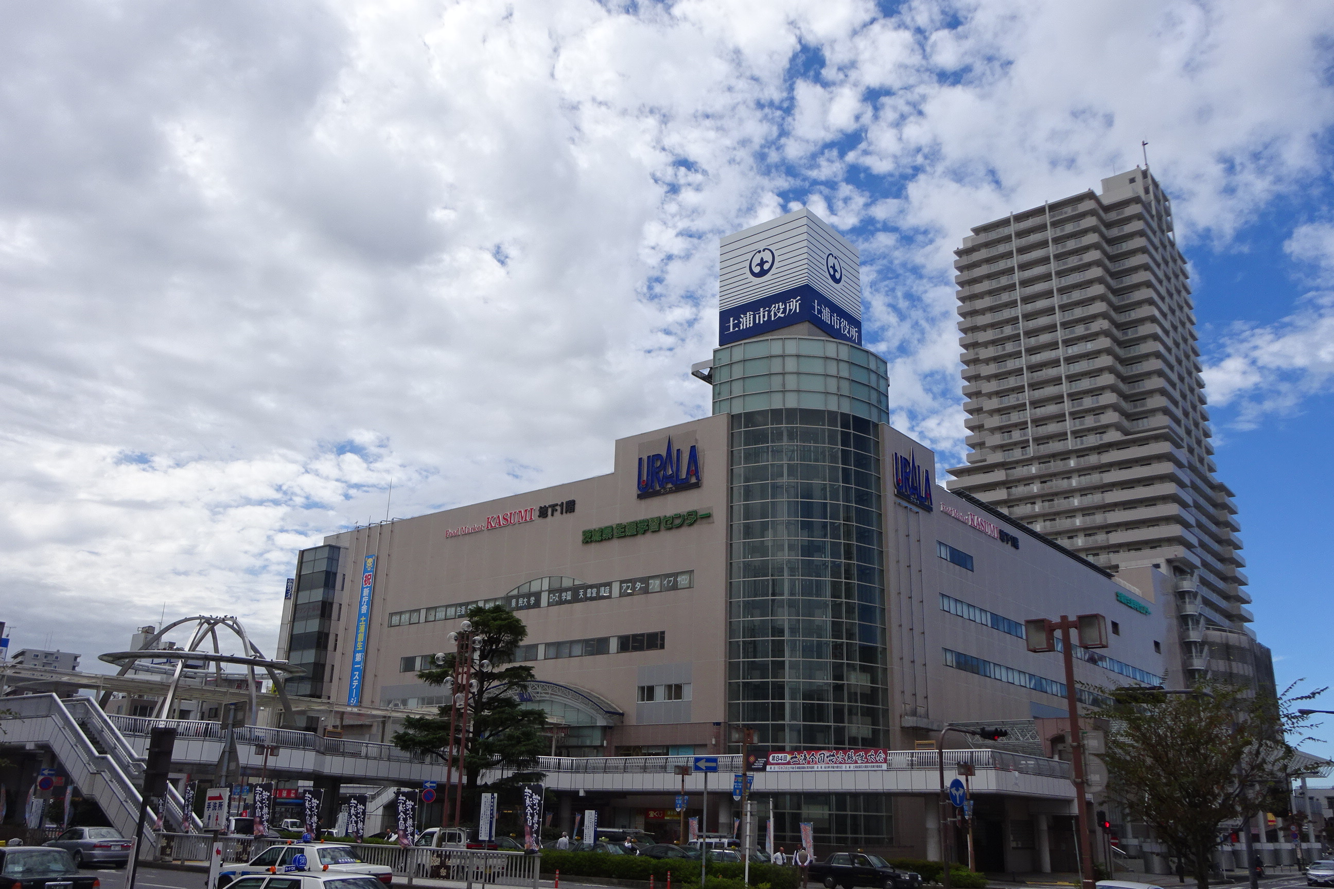 Tsuchiura city office main building "URALA".